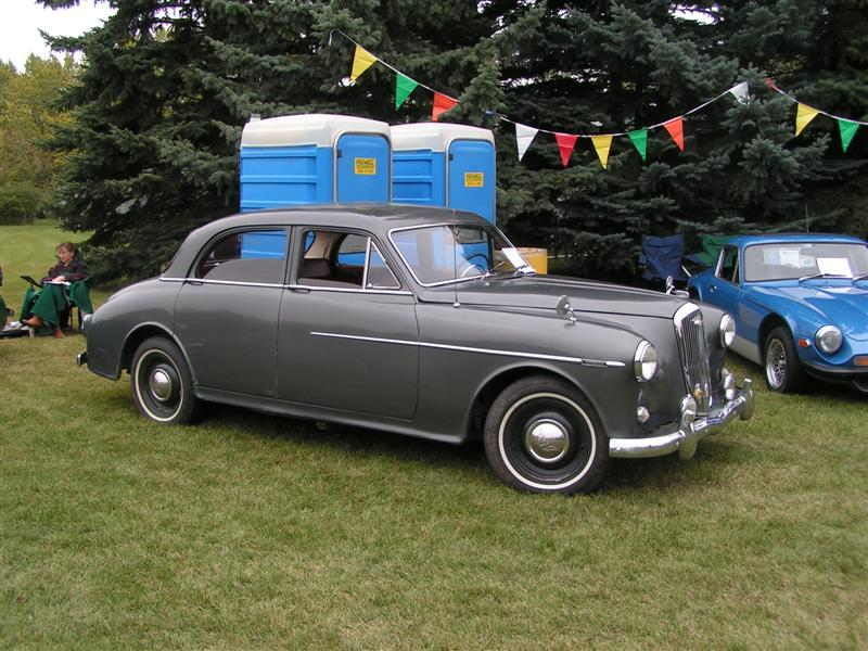 1958 Wolseley 6/90 MkIII at VSCCC European Classic Car Show